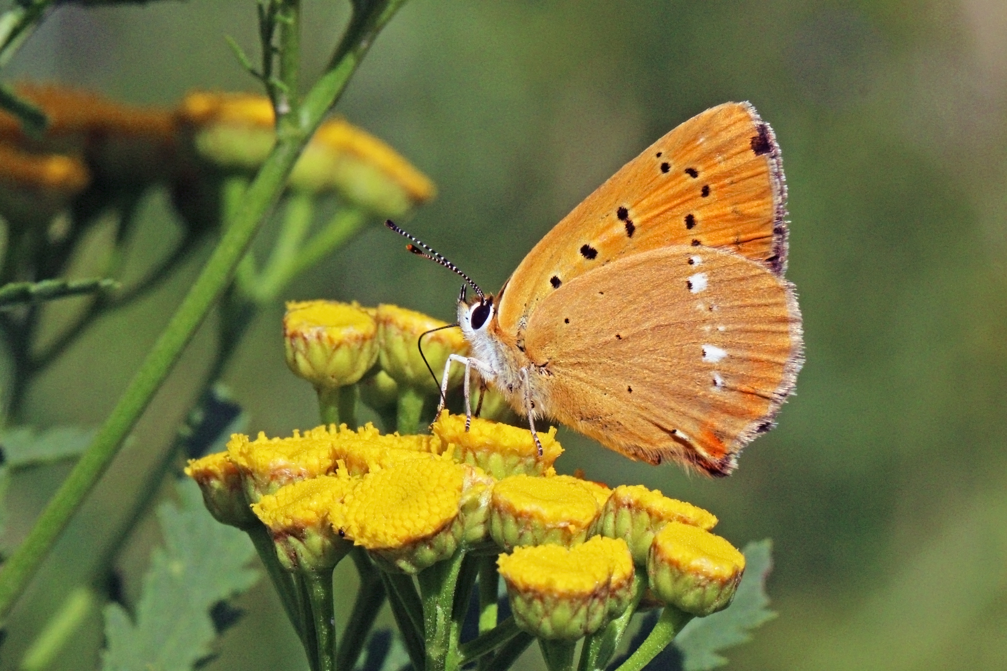 Scarce copper (Lycaena virgaureae) female, Bulgaria